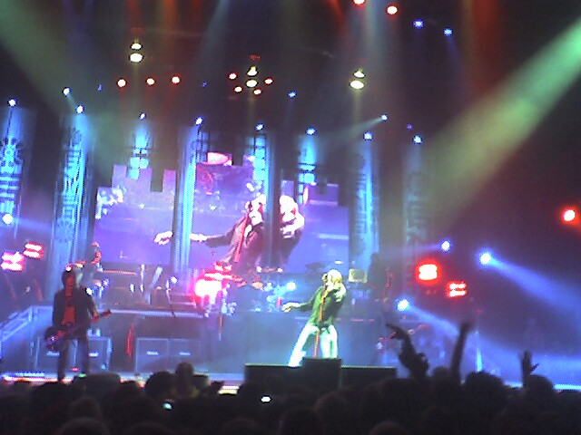 Opened with Welcome to the Jungle and closed with Paradise City - EPIC!